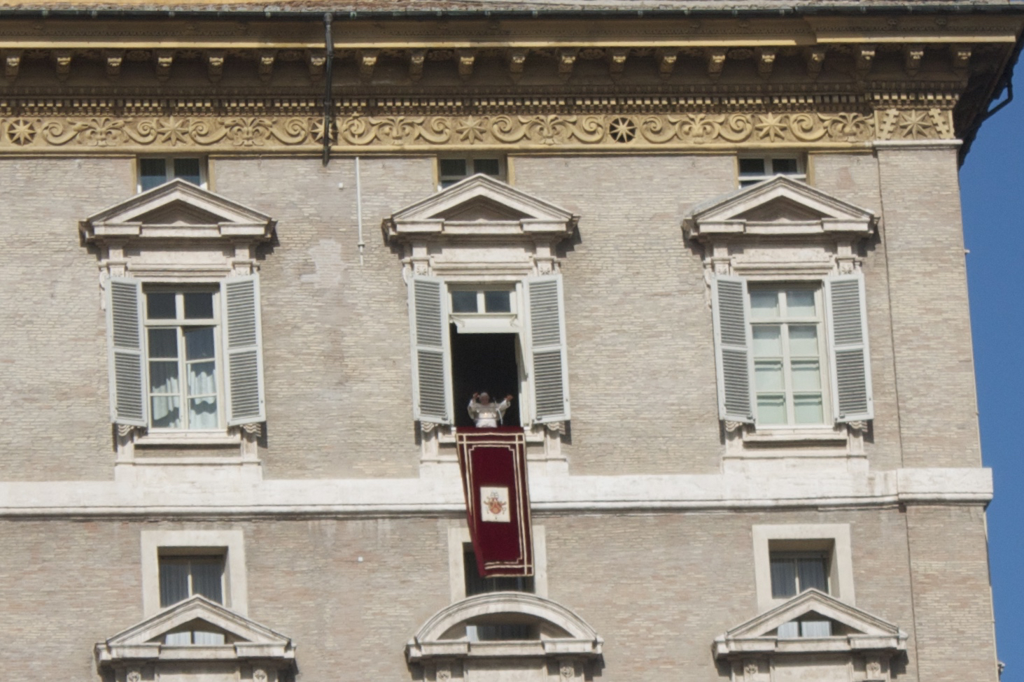 Pope Benedict XVI delivers the angelus at the Vatican in 2012